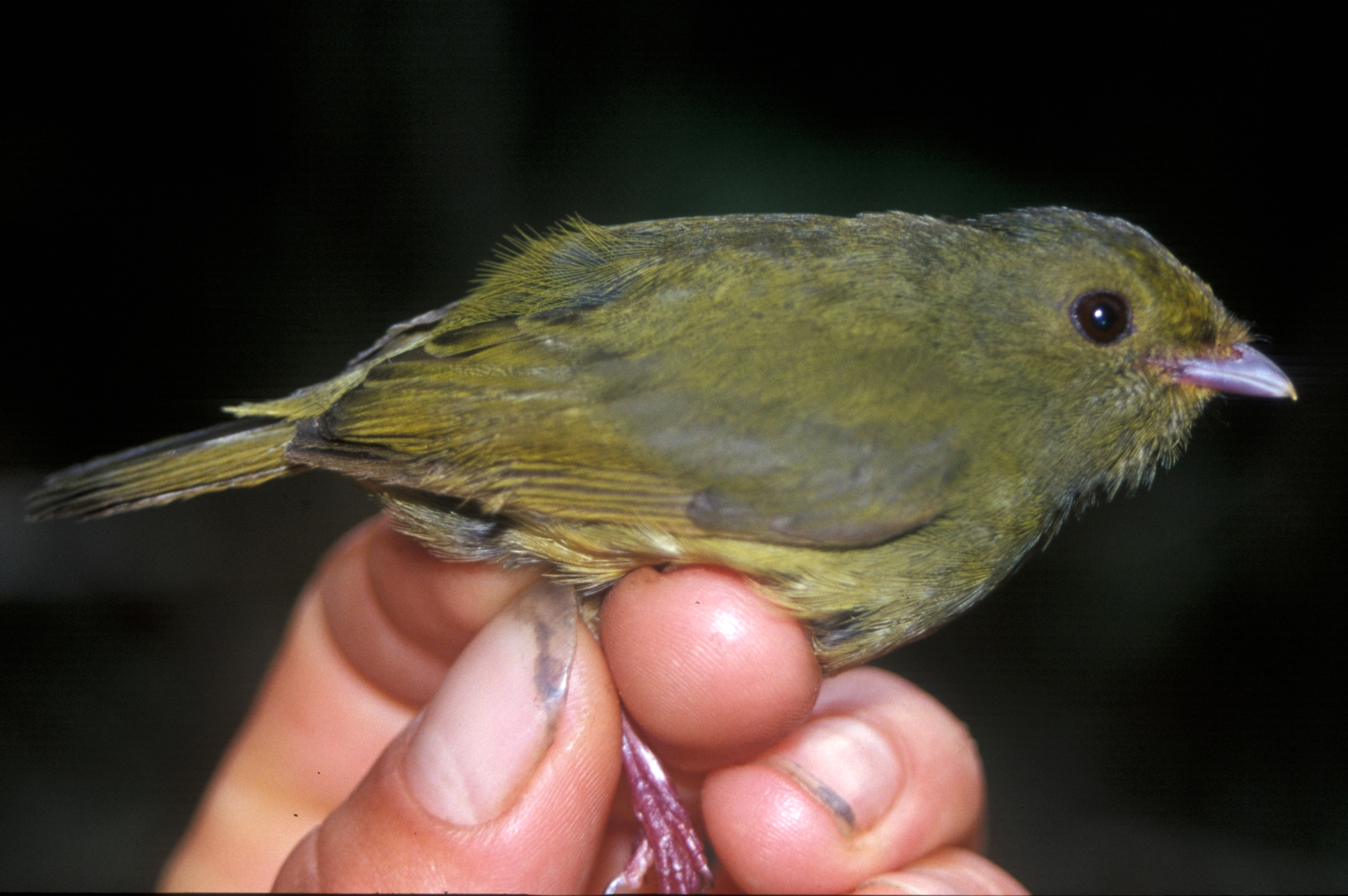 Golden-winged Manakin (Masius chrysopterus) from Ecuador